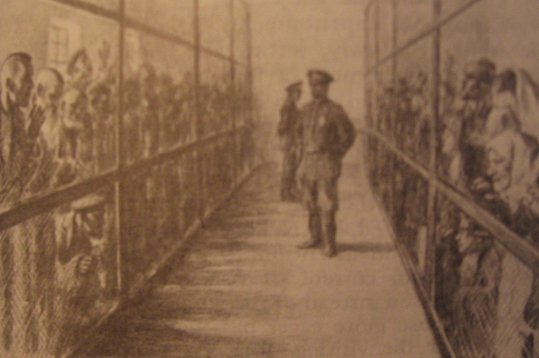 Pre-1910 illustration by Leonid Pasternak of Leo Tolstoy's wikisource:The Awakening: The Resurrection